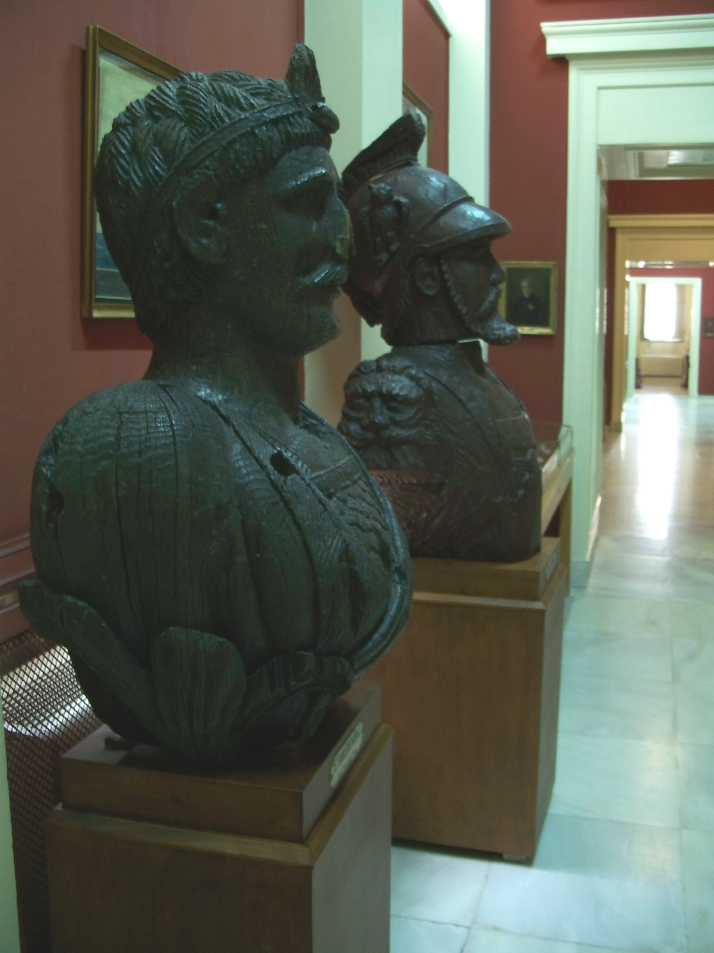 Figureheads of the ships "Epameinondas" (Επαμεινώνδας, left) and "Themistoklis" (right), belonging to greek revolutionaries Mpampas and Tompazis respectively. National Historical Museum, Athens, Greece.